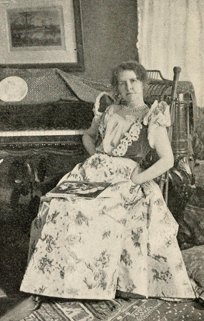 American writer Mary E. Wilkins Freeman.